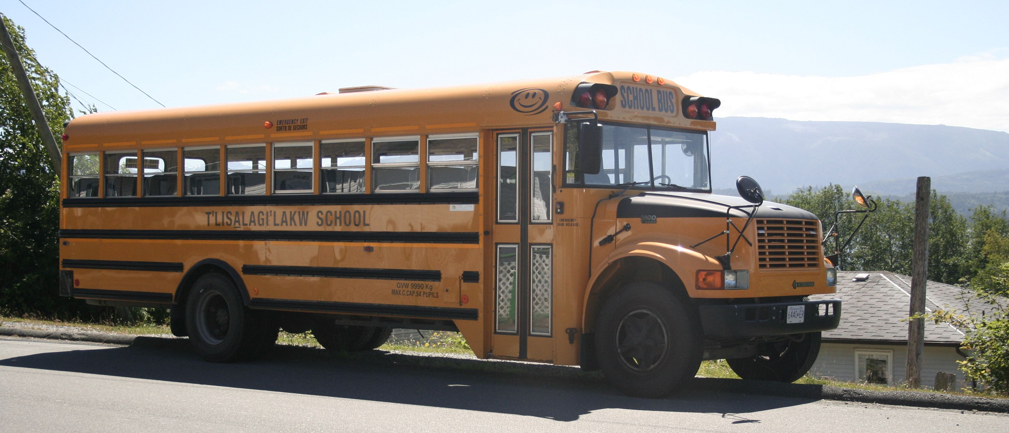 A bus for a 'Namgis school near the village of Yalis on Cormorant Island, British Columbia, Canada.